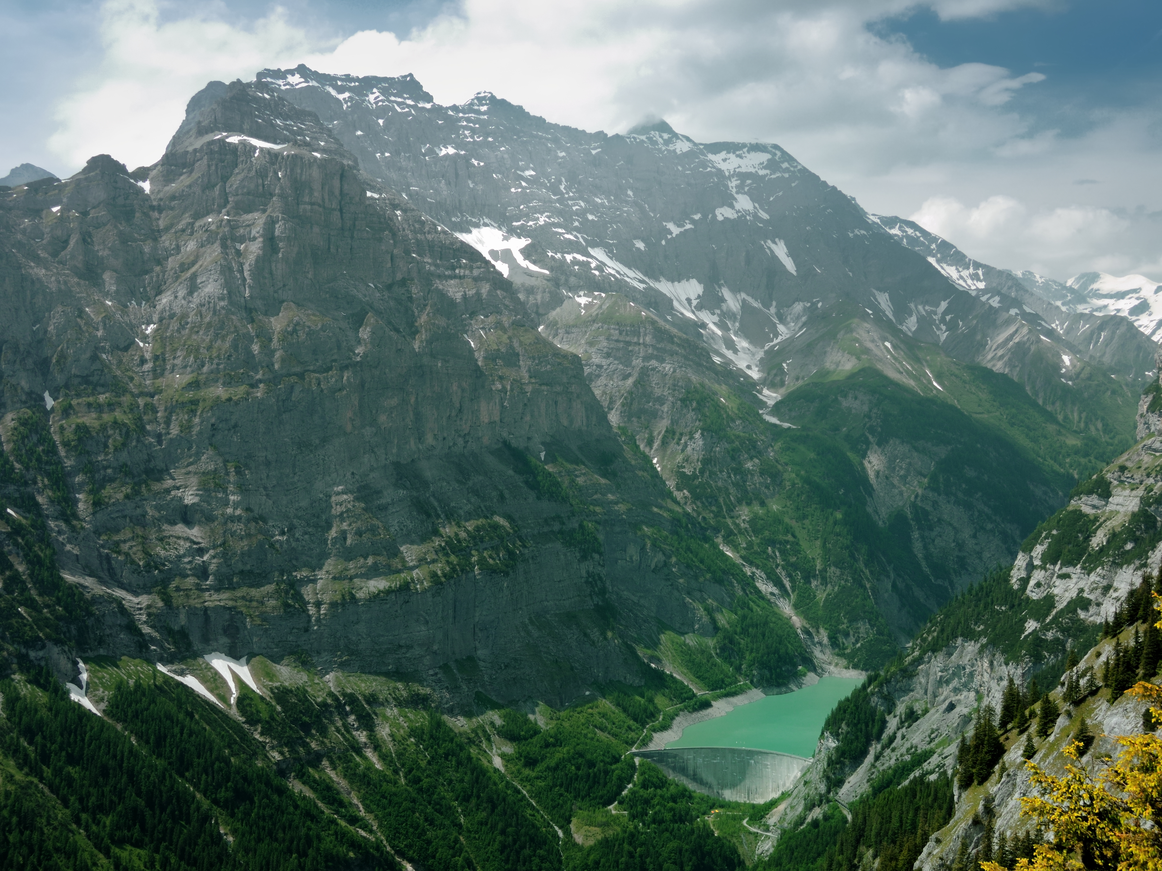 Ringelspitz and Gigerwaldsee, from above Vättis